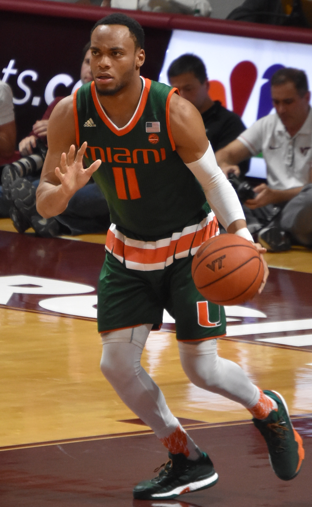 Bruce Brown heads up court with the all for the Miami Hurricanes